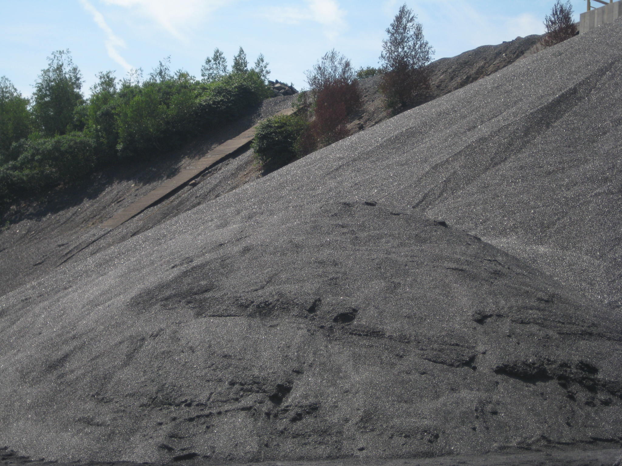 Ultra-High-grade Anthracite graded and washed HEAP. Likely Stove Grade, note the almost gun-metal blue color and amazing lack of dust. This overstock spill-off is just to the left of the chute loading finer grades of anthracite. See related images 4457-4466 taken within minutes of this picture. The overstock heap can be truck loaded by loader into a truck parked just below and left of this photo or a loader can easily scoop the stockpile and dump it back into the breaker input chute (if backing, near side of the building around one corner from this view) to produce finer milled grades, dependent upon demand and other supplies. Photo taken Sunday 21 July 2013 whilst railfaning at Blaschak Coal Company, New St. Nicholas Breaker, 1178 W.Centre St. on PA-Rt 54, Mahanoy City, PA 17948. This modern coal processing plant or modern coal breaker (successor) is a fraction of the size of old tech massive breakers which once towered up to eleven stories above the ground.